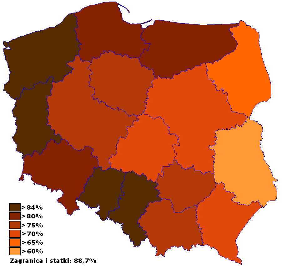 Polish European Union membership referendum, 2003 % of 'Yes' vote by voivodships